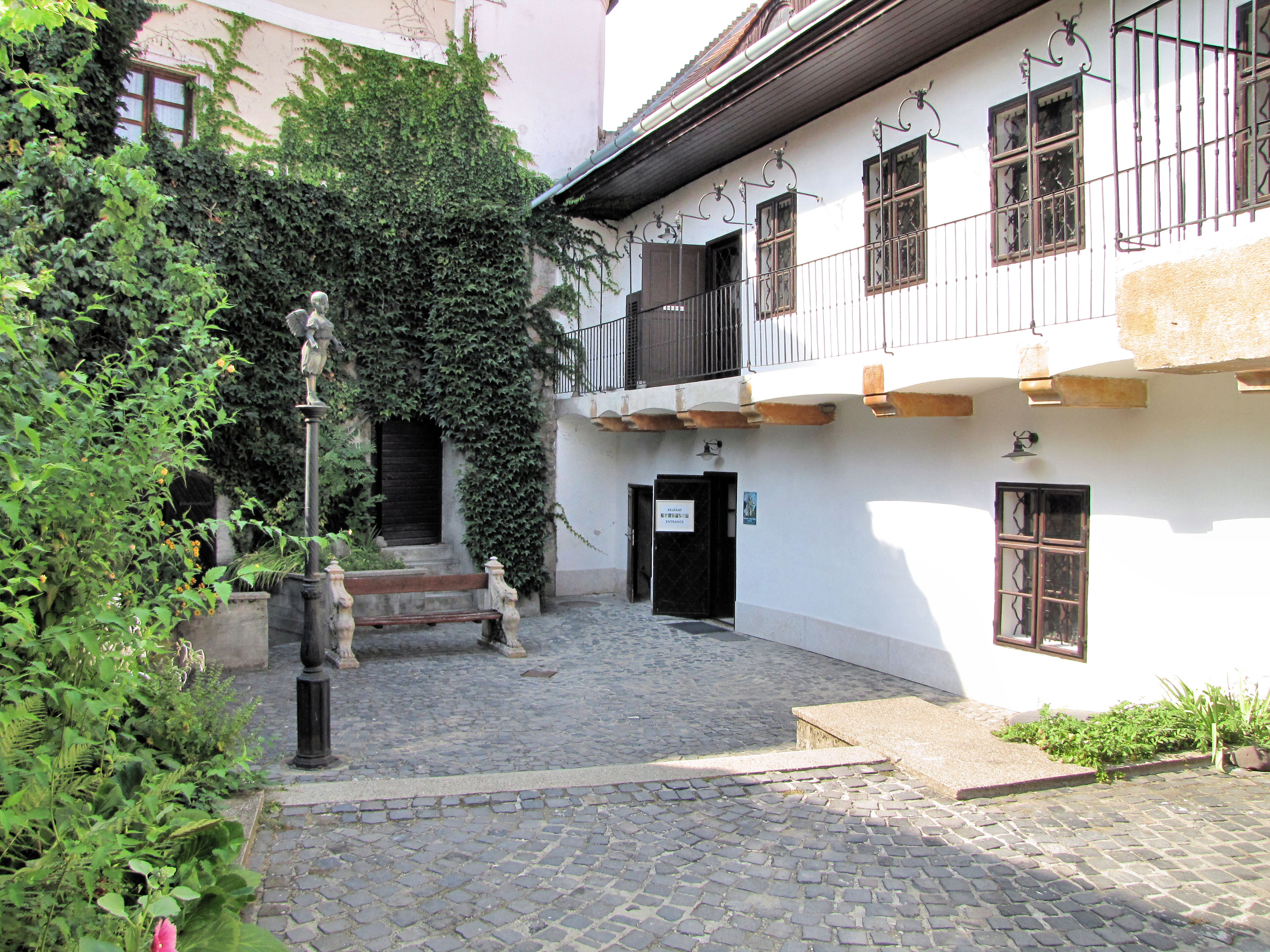 Imre Ámos - Margit Anna Museum, Szentendre.